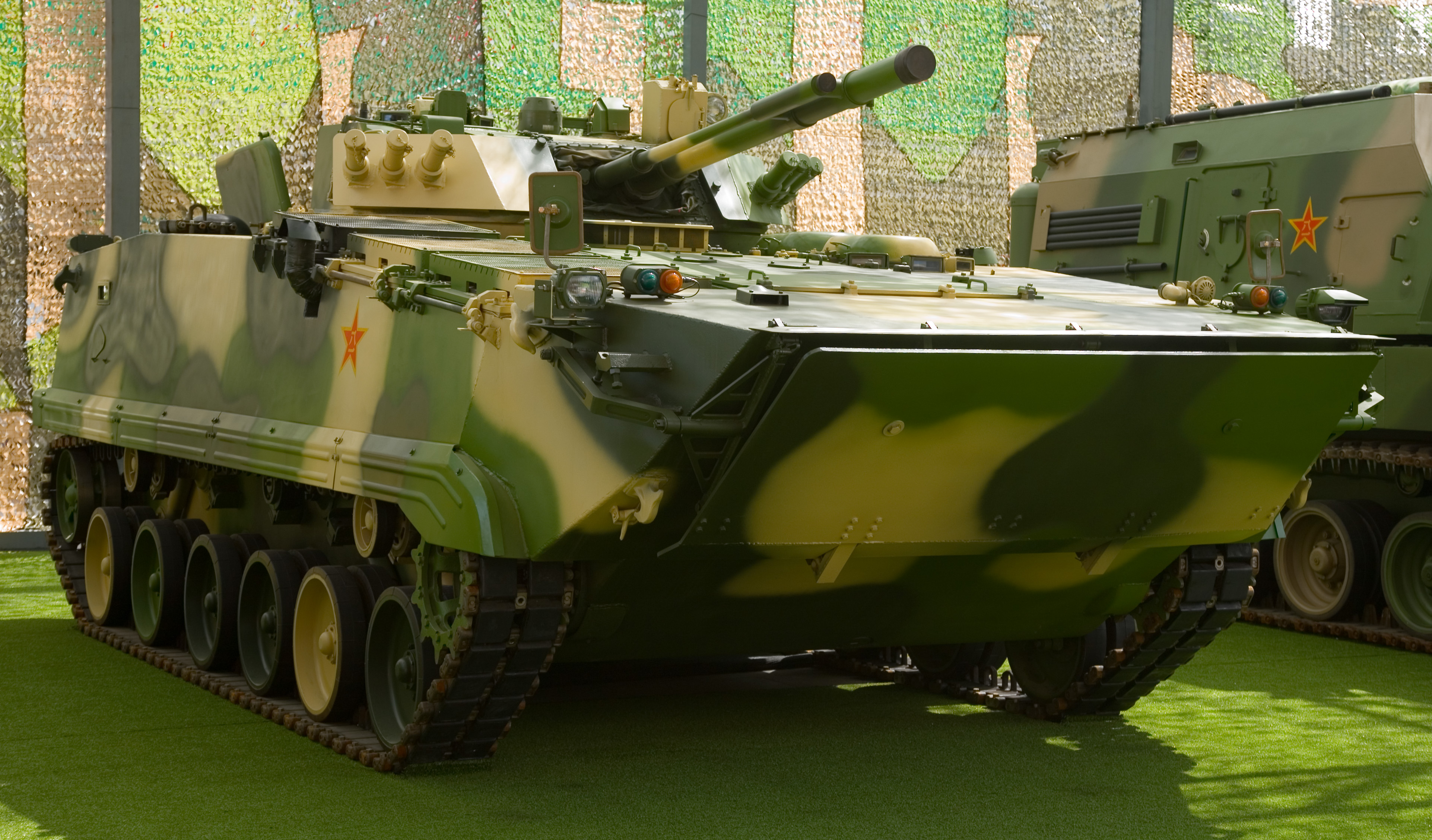 A Chinese ZBD-04 IFV seen from the front right. It is on display at the Beijing Military Museum at the "Our Troops Towards the Sun" exhibition in Beijing. 曾一度被外界称为“ZBD-97”，正式命名应为“ZBD-04”。